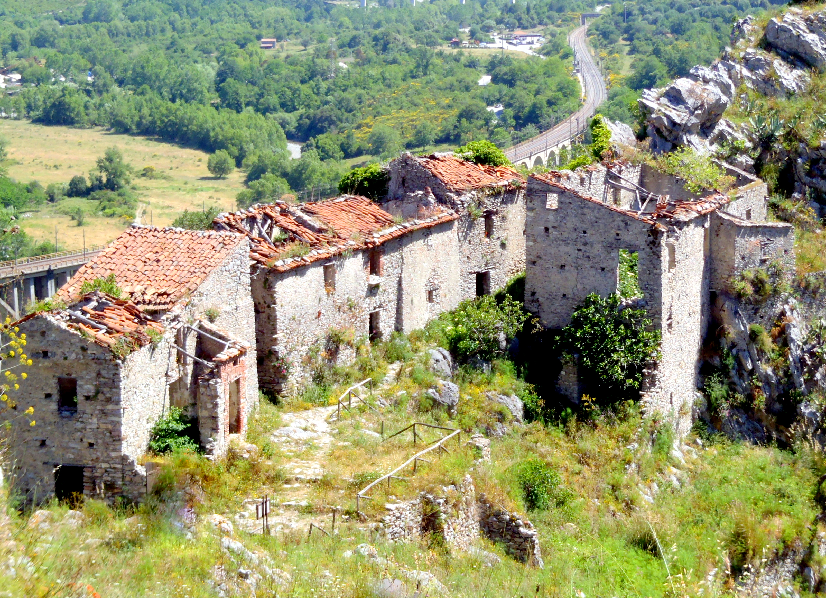 Medieval village of San Severino, hamlet of Centola, located in the Province of Salerno, Campania.